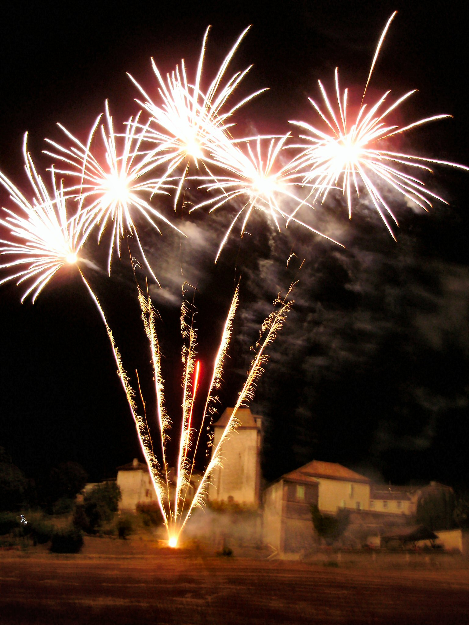 Fireworks bursting over Siorac de Riberac's summer fete, 2008. The free annual show attracts crowds from far and wide.